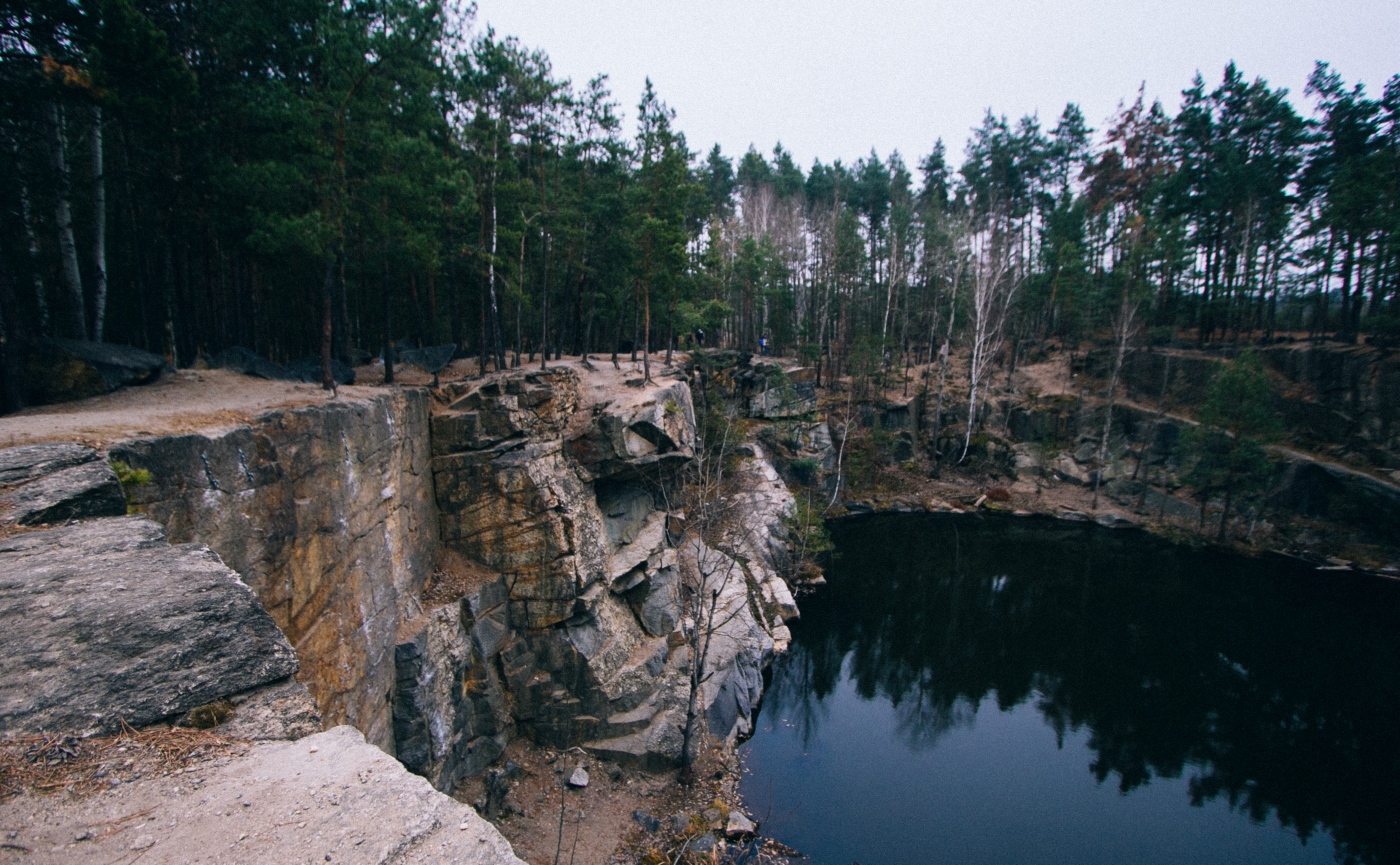 Quarry of Korostishev